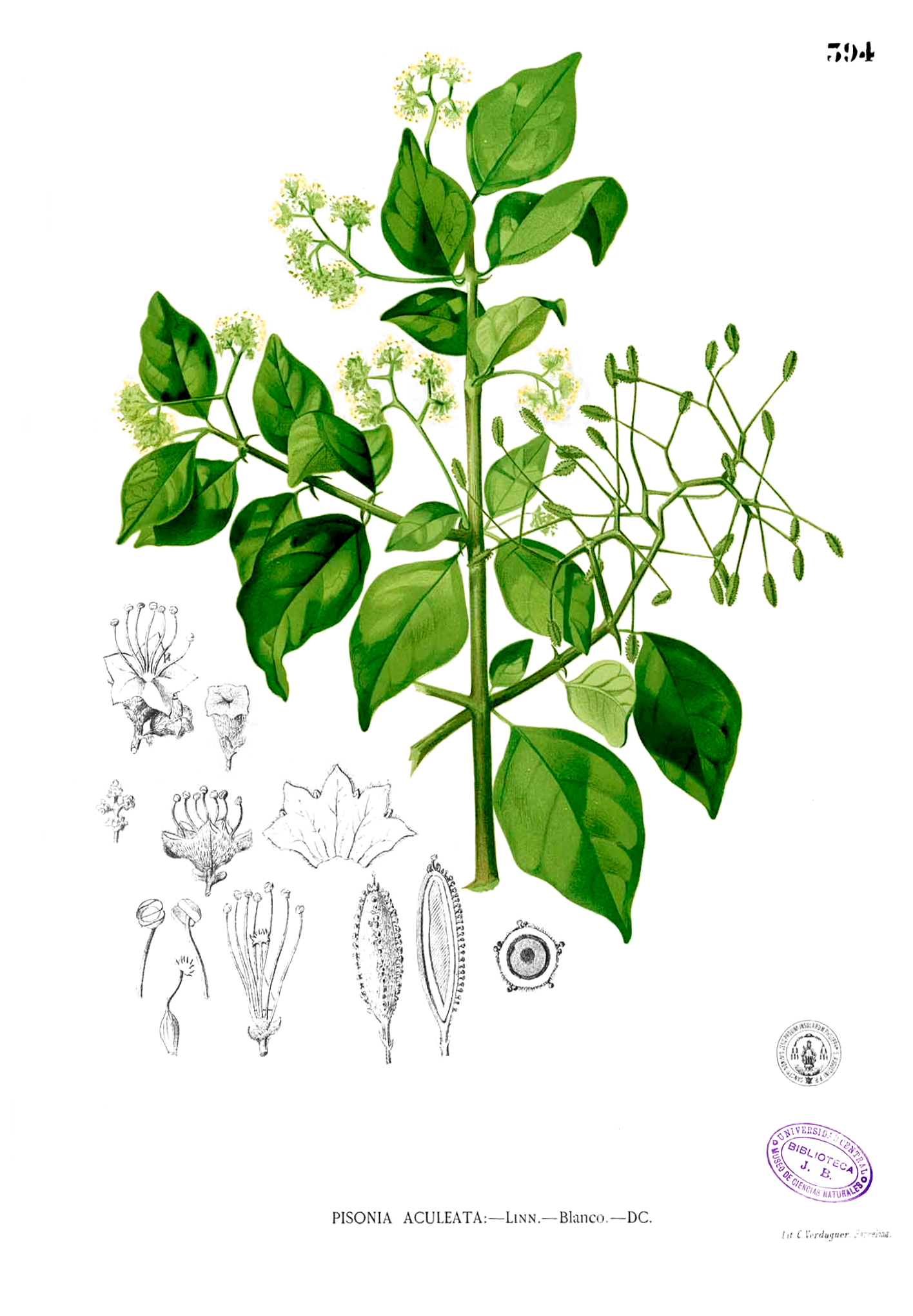 Plate from book